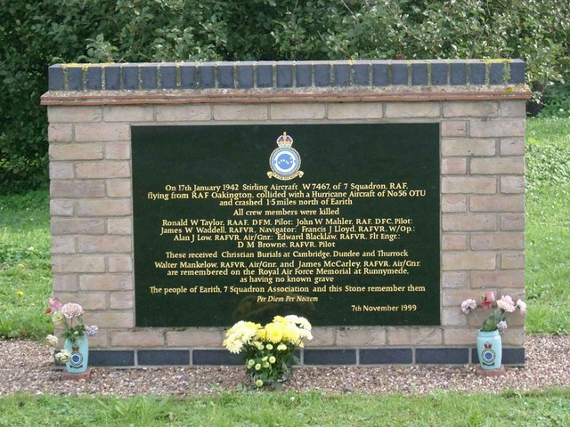 Monument at Earith, Cambridgeshire (formerly Huntingdonshire) to the crew of an RAF Short Stirling aircraft that crashed nearby on 17 January 1942